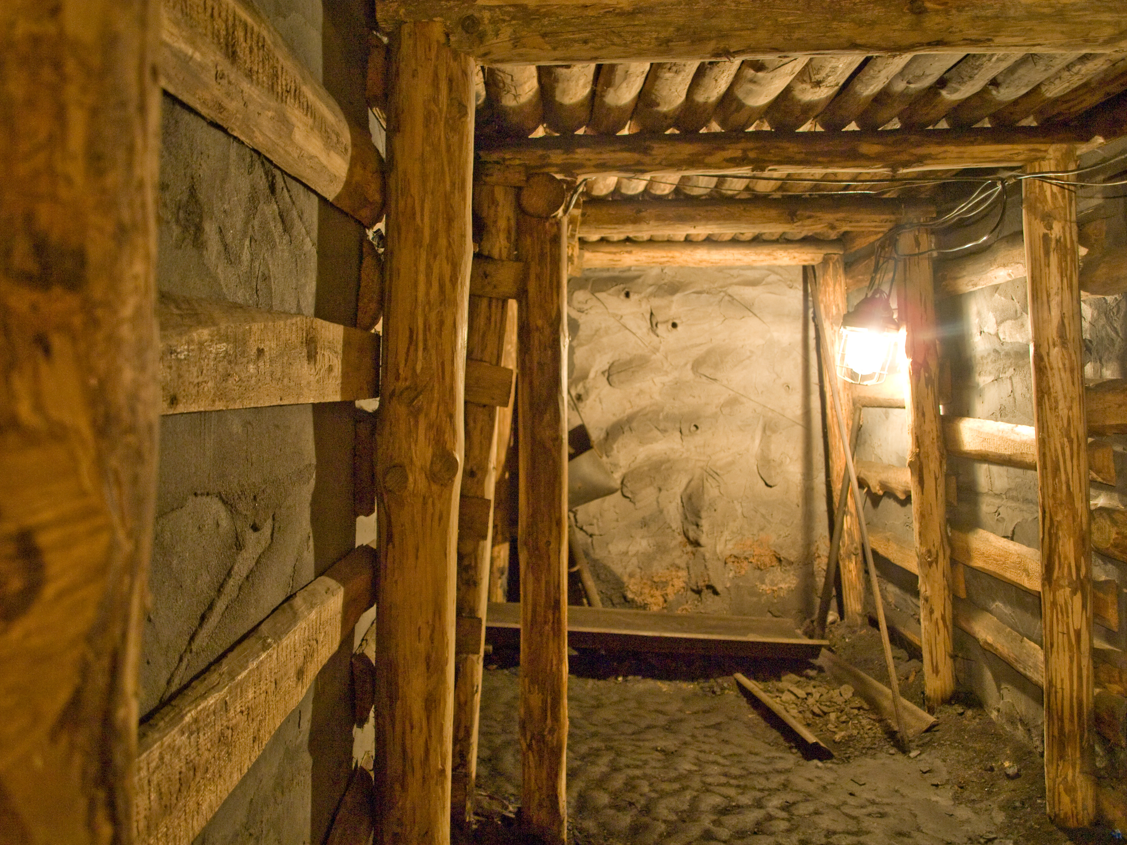 Anselm mine, Mining museum in Ostrava